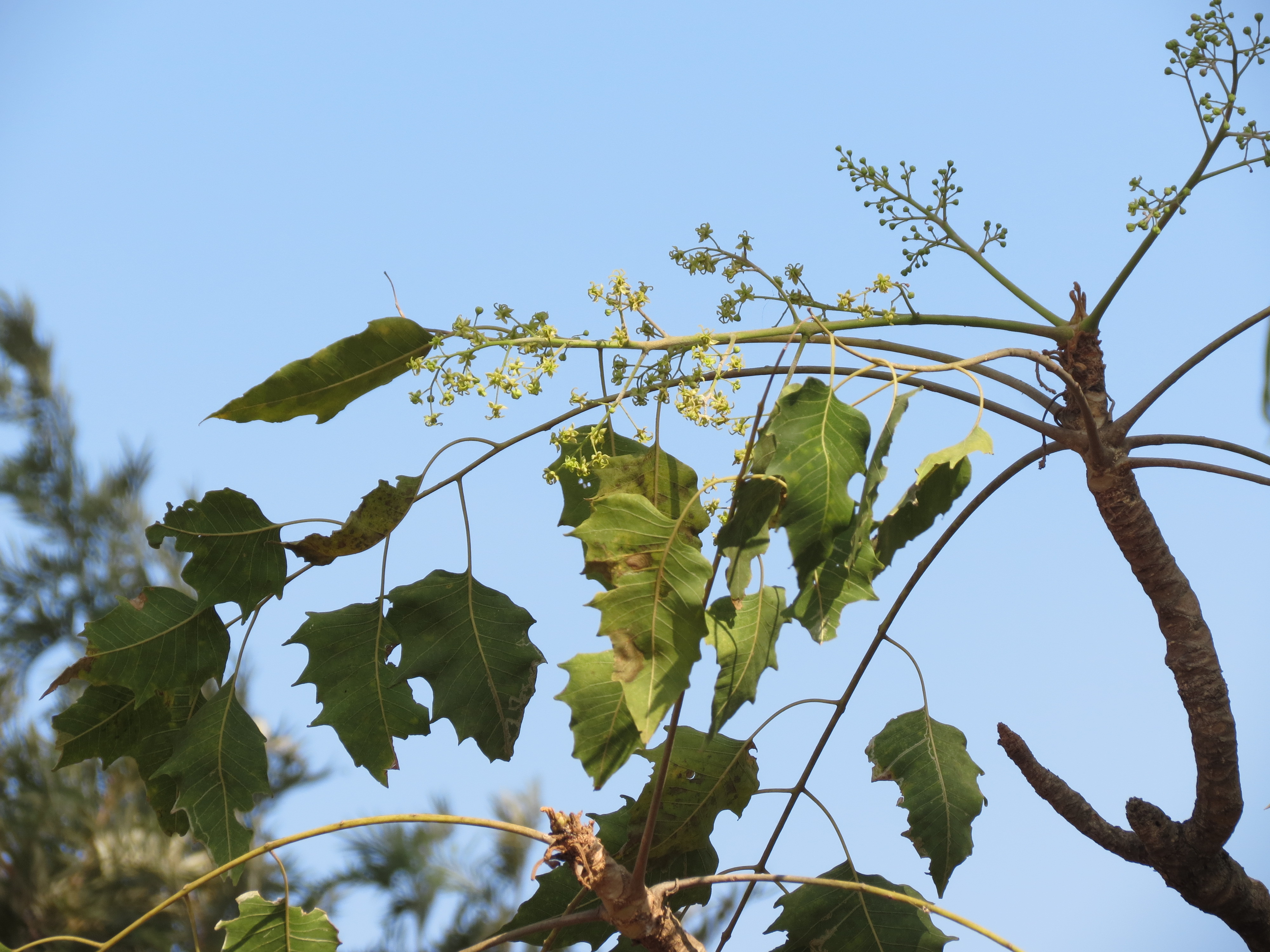 Ailanthus excelsa flowering in Valley school Bangalore